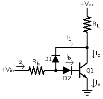 Example of a baker clamp circuit to prevent a transistor from saturating.